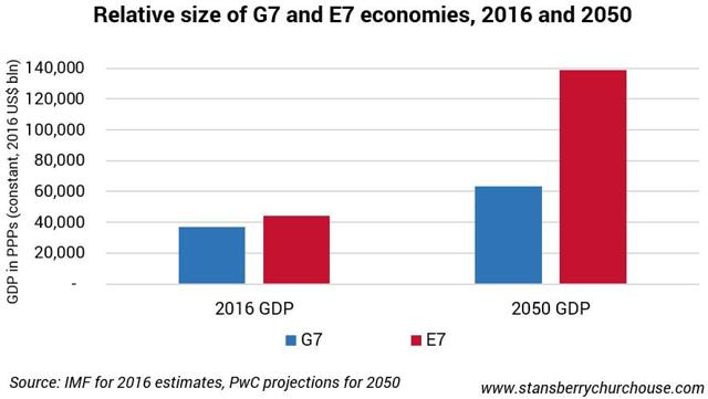 هفت کشور در حال ظهور